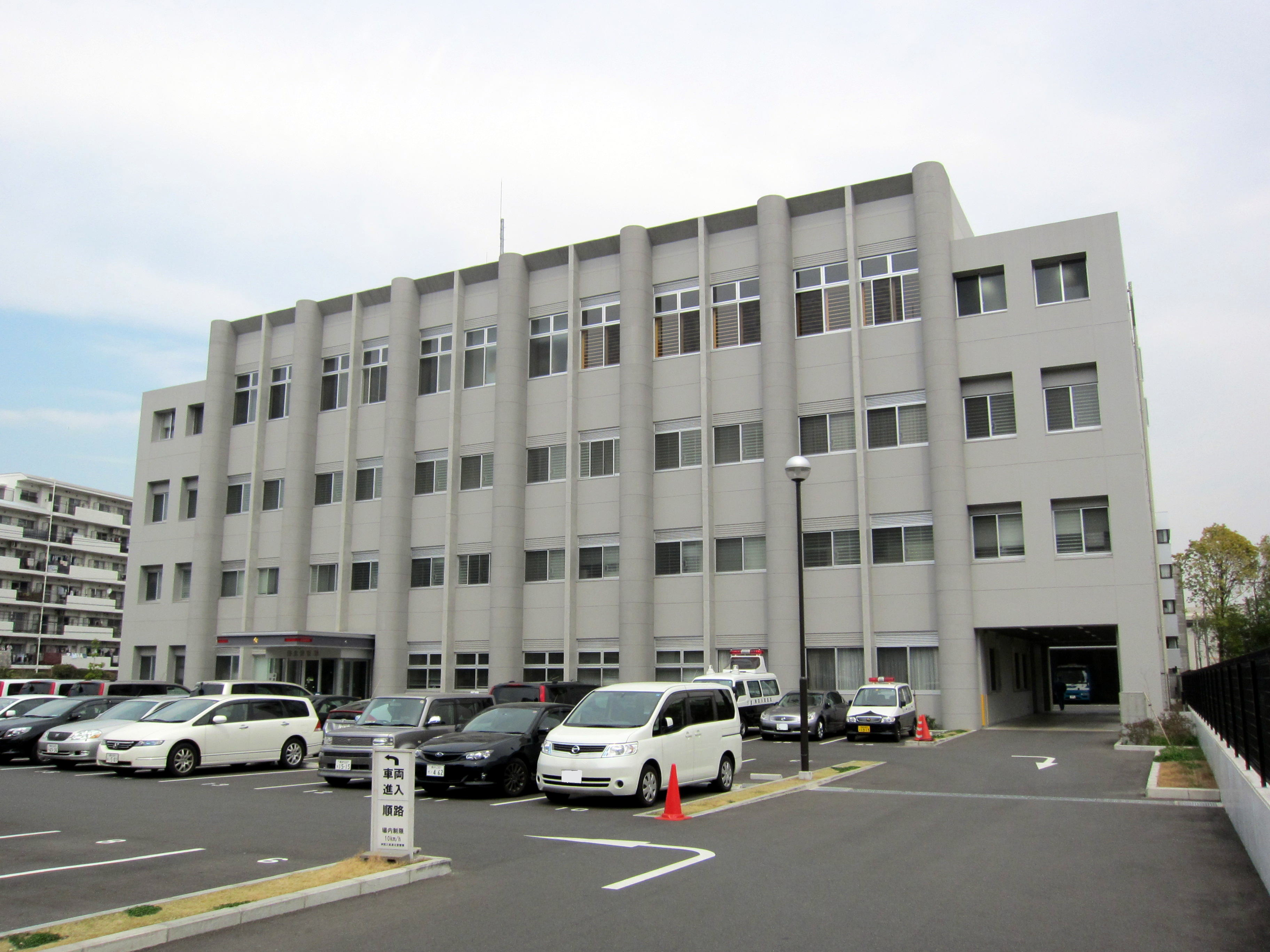 Yokohama Kohoku Police Station